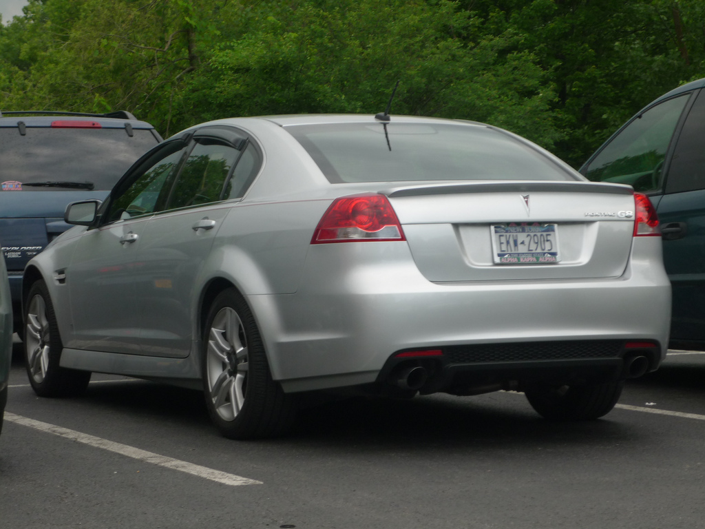 Pontiac G8 sedan, photographed in the United States.